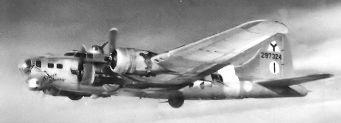 B-17G 42-97324 "Silver Sheen" of the 341st Bombardment Squadron. Assigned in October 1944 and flew combat missions until being shot down over Ruhland, Germany on 22 March 1945, one of 11 B-17s shot down on the long range mission into the industrial heart of Germany. (USAAF Photo)